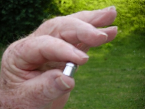 A member of a Stopselclub (German for plug-club) presents a plug. A plug-club is a social organization, who's members always have to carry a plug with them. If two members meet, each of them can ask the other one to present his plug. If a member forgot the plug, he has to pay a fine. The money which is collected through these fines is usually used to buy beer for the next club meeting. Plug-clubs are popular in the German state of Bavaria.